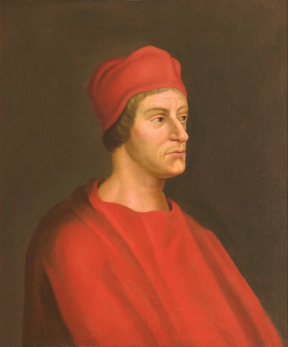 Portrait of John Collet, currently in the Deanery of St. Paul's Cathedral. Based on Henry Holland's print of 1620, based in turn on a sketch by Hans Holbein the Younger, which was not drawn from life but is instead a study of a now lost bust by Pietro Torrigiano (a 16th-century cast survives in St. Paul's School, London; another cast in in the National portrait Gallery, London).